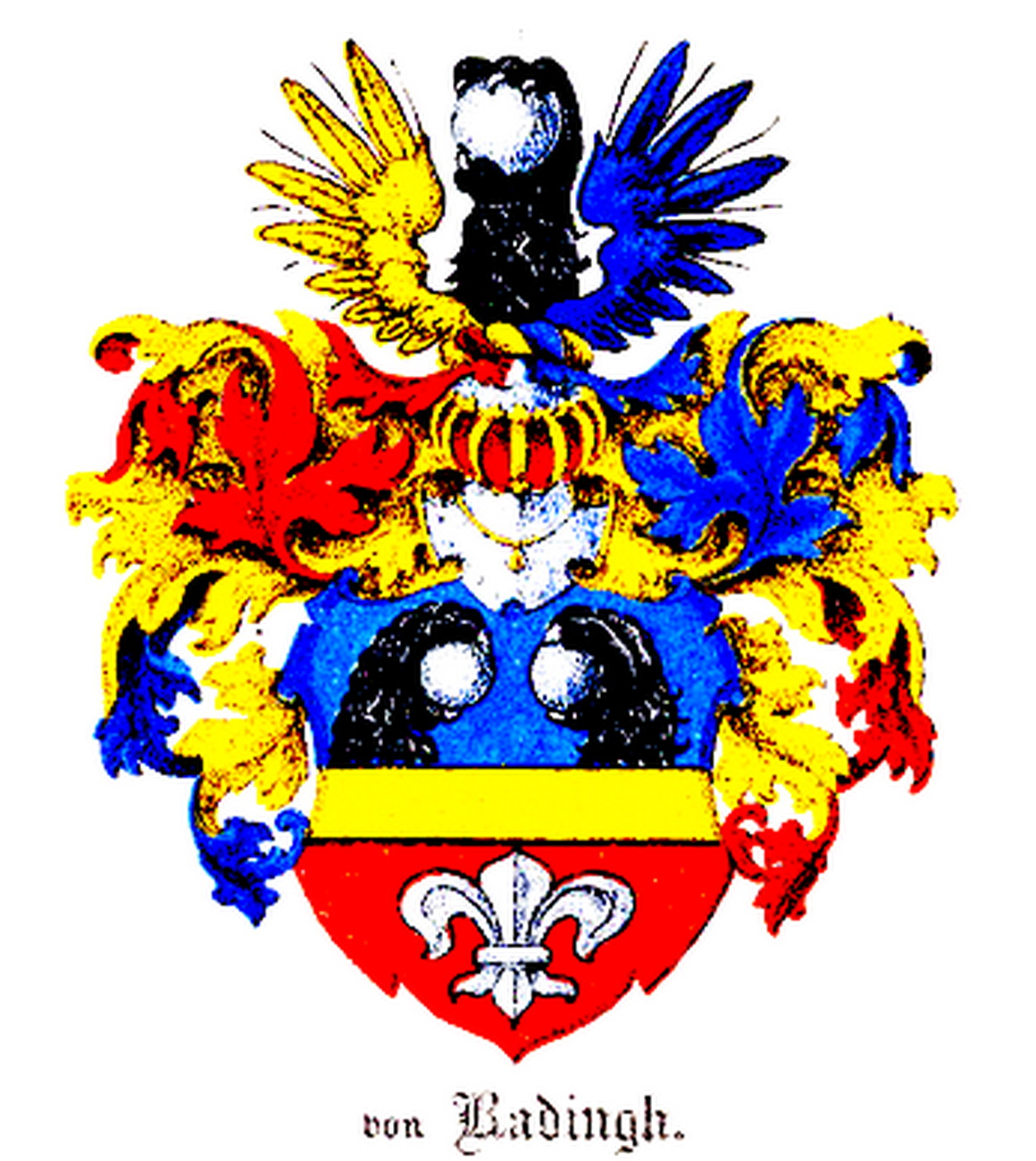 Coat of arms of Radingh family